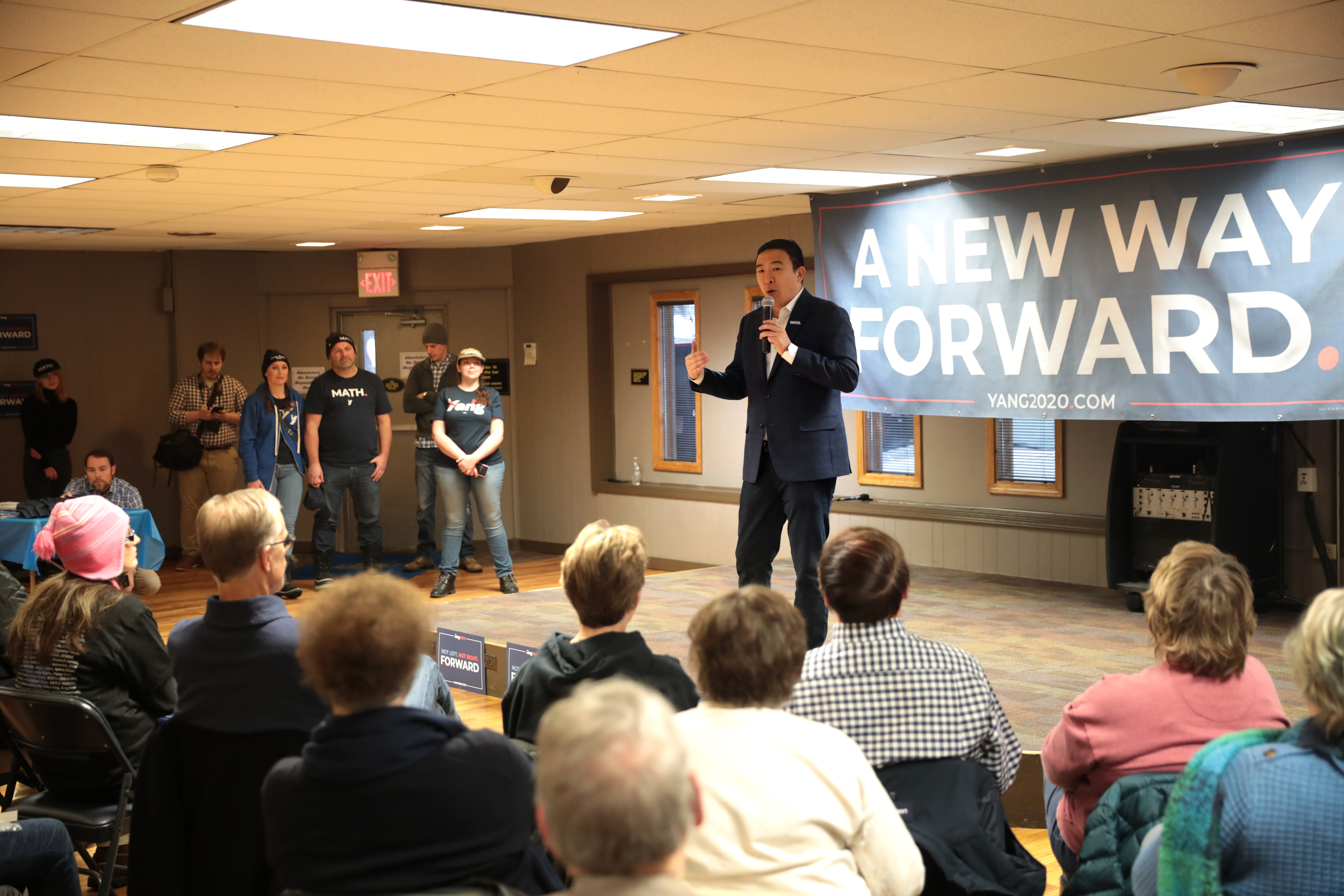 Andrew Yang speaking with supporters at a town hall at the American Legion Post 111 in Newton, Iowa.